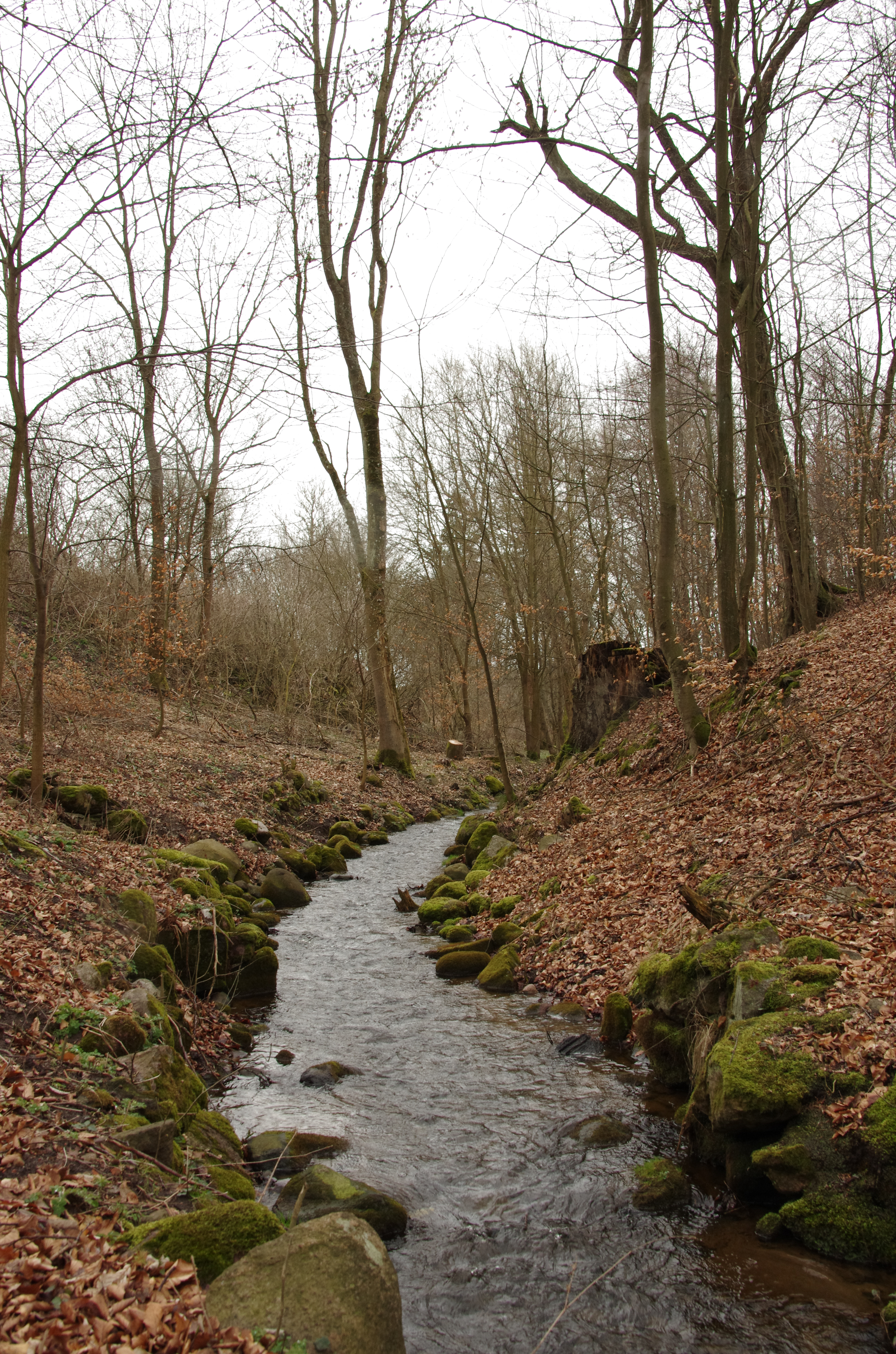 Parsęta-Source Near Village of Parsęcko, Commune of Szczecinek